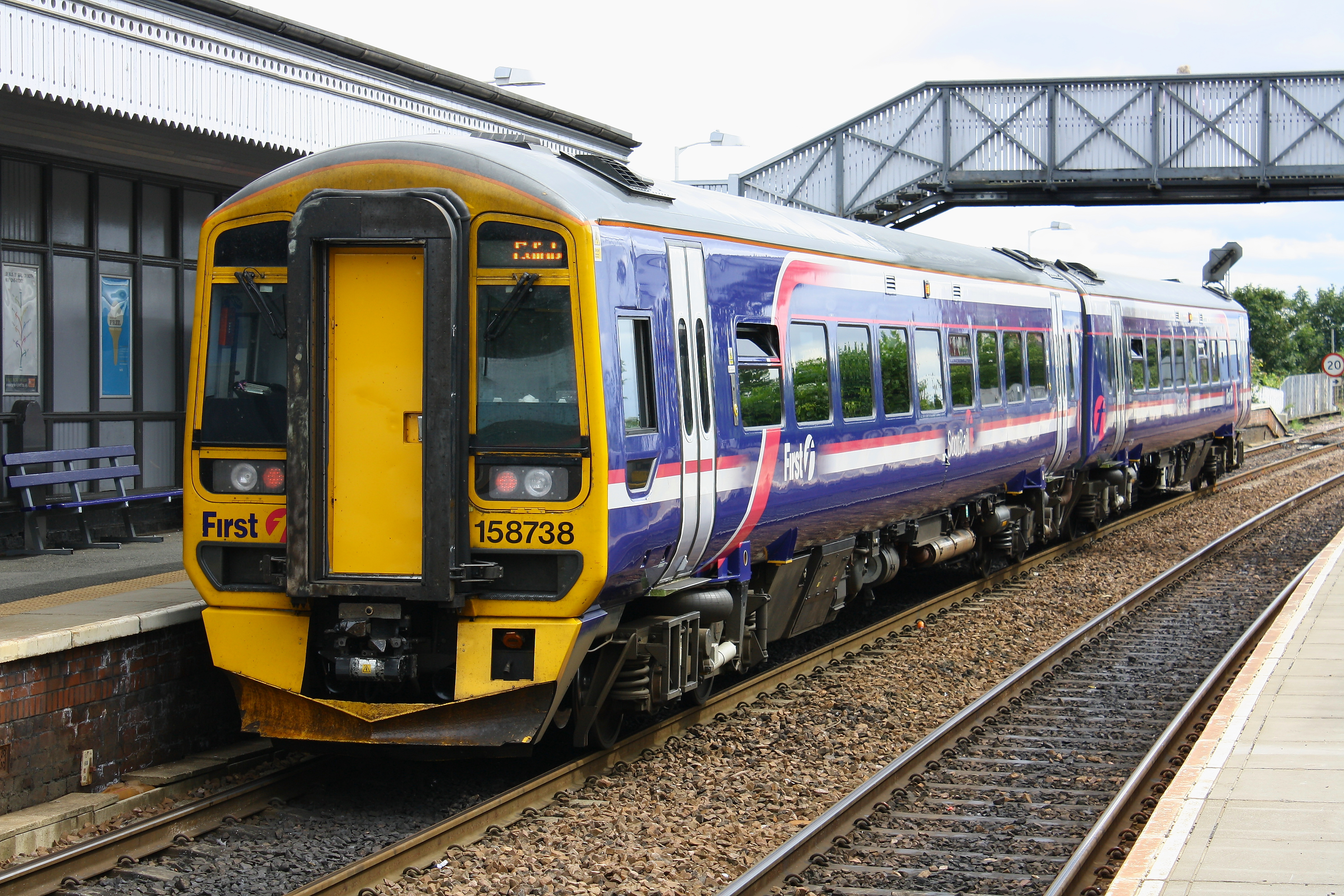 First ScotRail British Rail Class 158 738, at North Queensferry railway station.